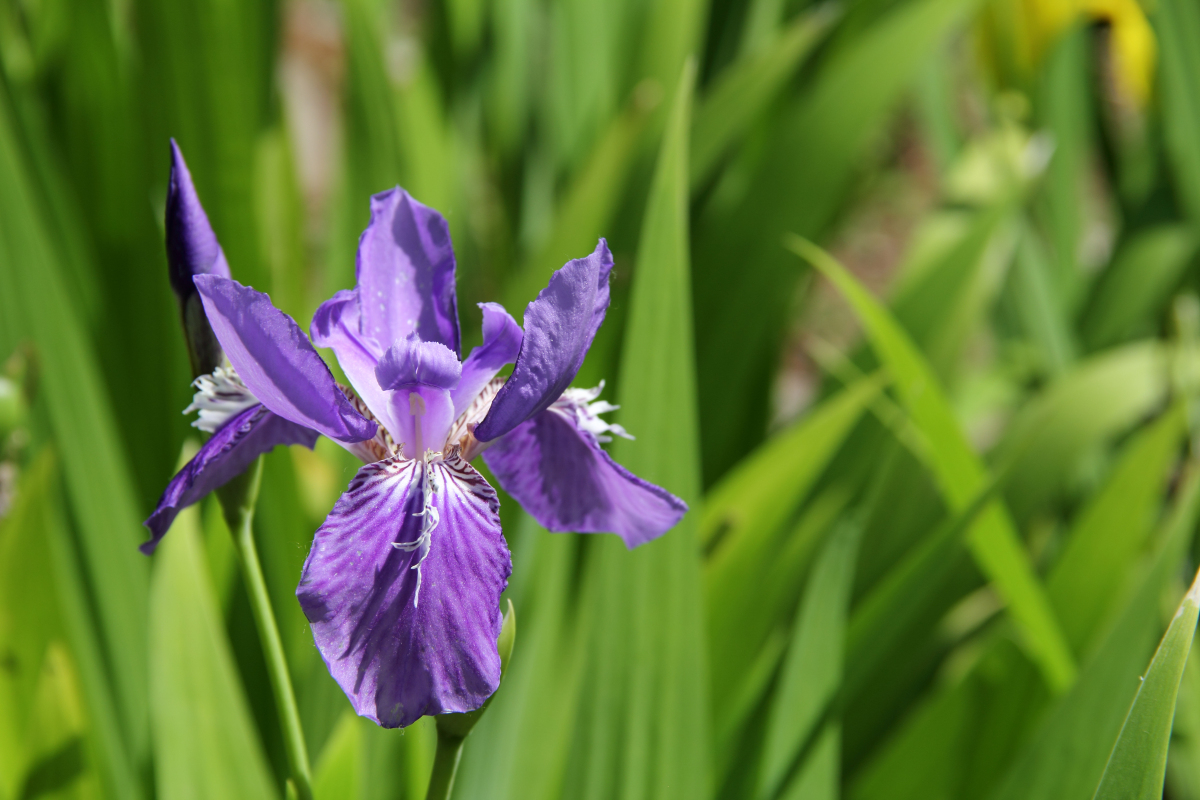 My fibrous roots are thin and short. My rhizome is robust and dichotomic, about 1 cm in diameter, slantly stretching out. I have yellowish-green basal leaves, 15-50cm long and 1.5-3.5 wide, slightly curved, wider in the middle, and in a broad ensiform shape.